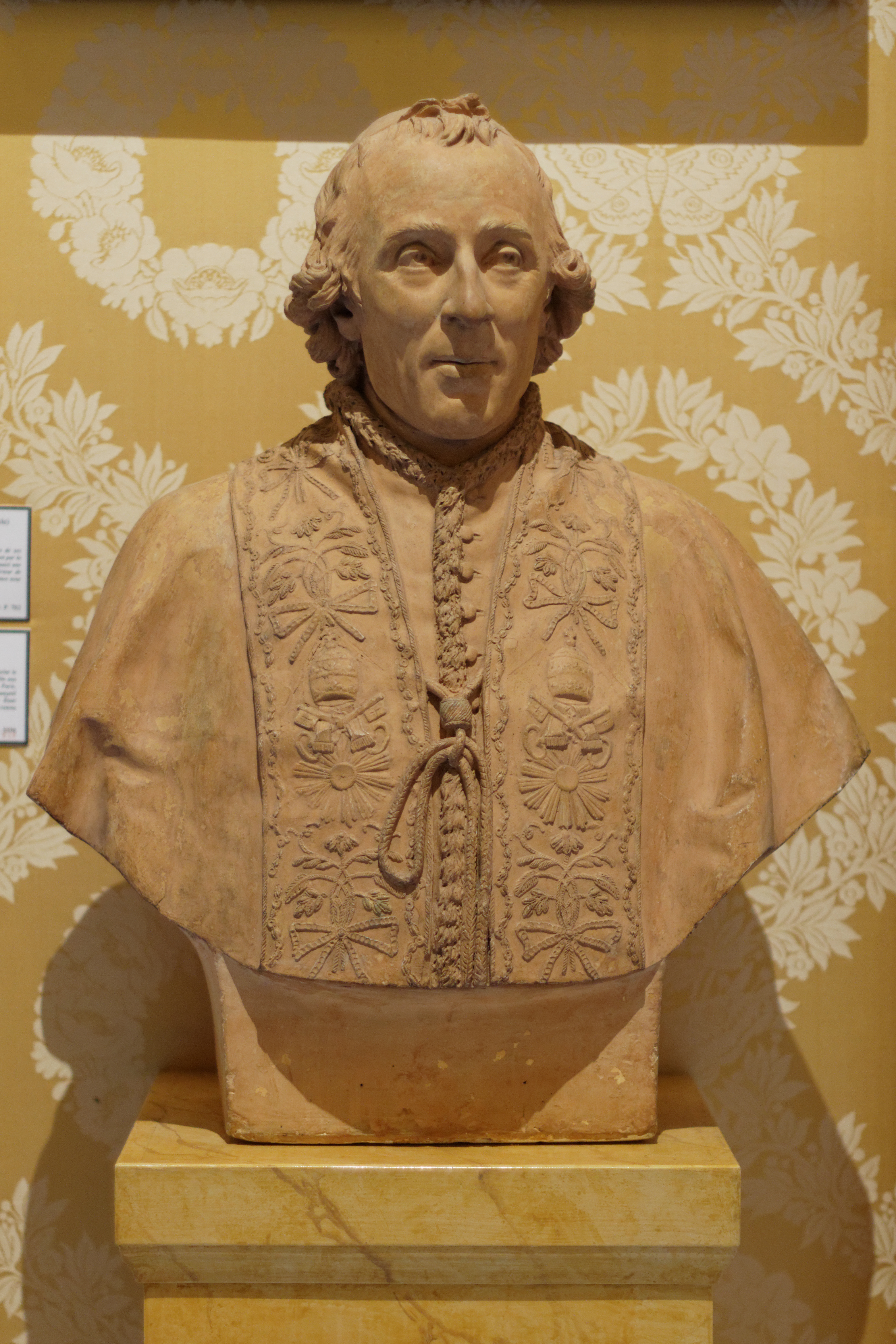 Bust of Pius VII.